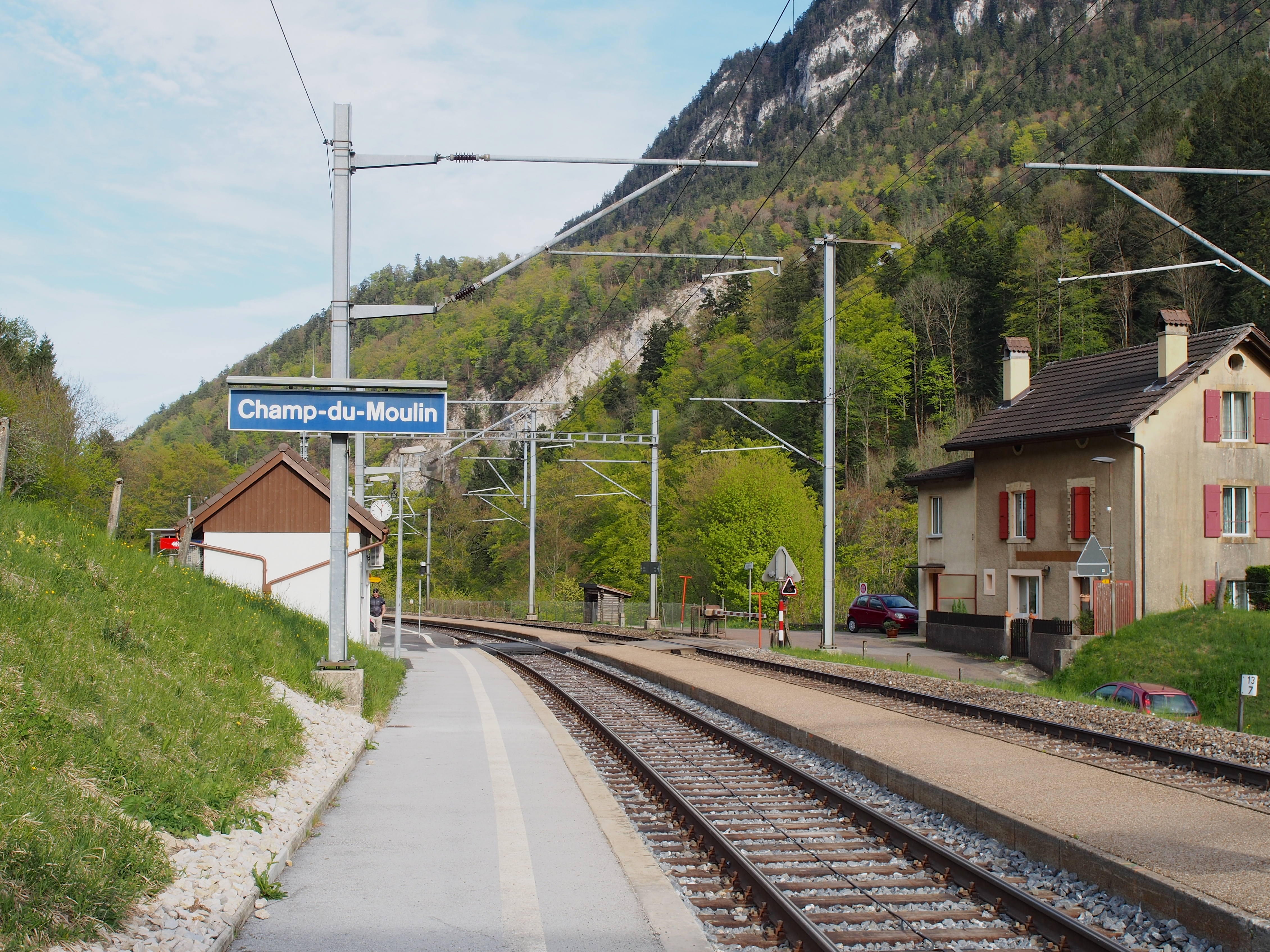 Train station of Champ-du-Moulin, district of Boudry (Canton of Neuchâtel), view from west